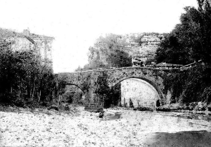 Diligence en La Cavada (Cantabria, Spain). Image of one diligence crossing the old bridge of La Cavada (Riotuerto)